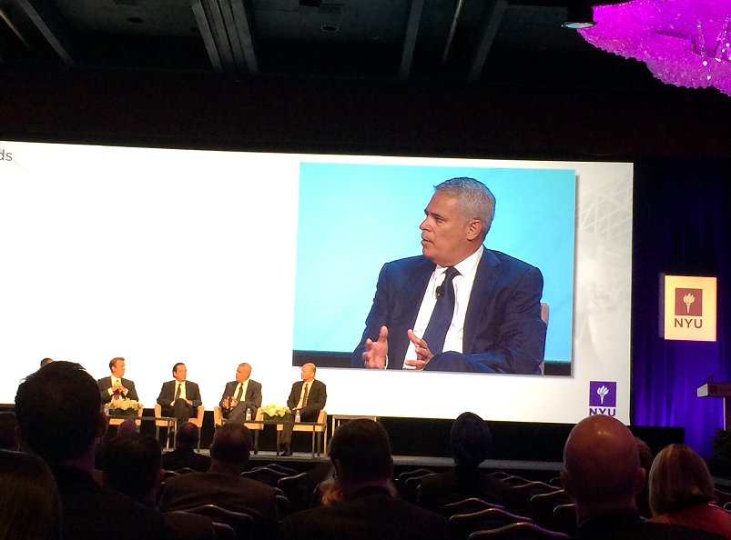 Alan Fuerstman Speaking NYU.